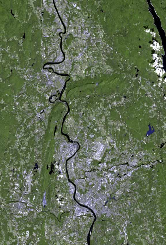 The raw satellite imagery shown in these images was obtain from NASA and/or the US Geological Survey. Post-processing and production by